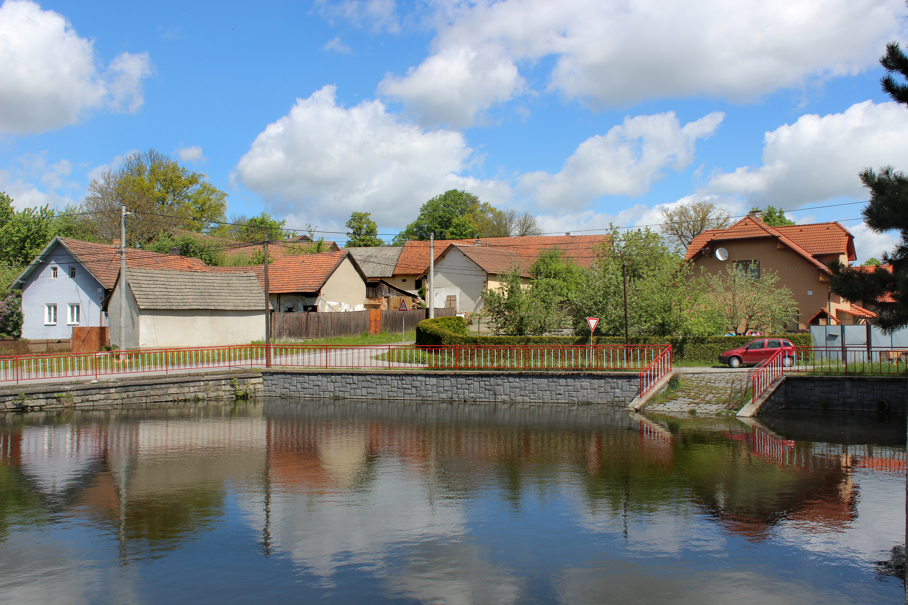 Common in Hrbov, part of Polná, Czech Republic